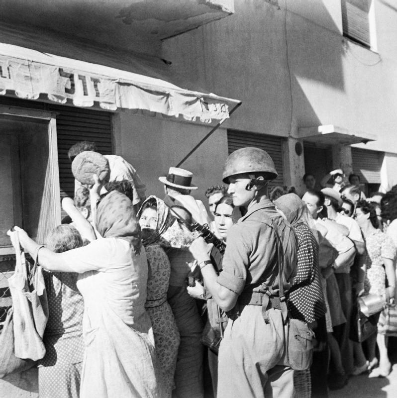 Following the lifting of the curfew in Tel Aviv large crowds gathered outside food shops. Here a soldier of the 6th Airborne Division stands by to maintain order outside a bakers shop.